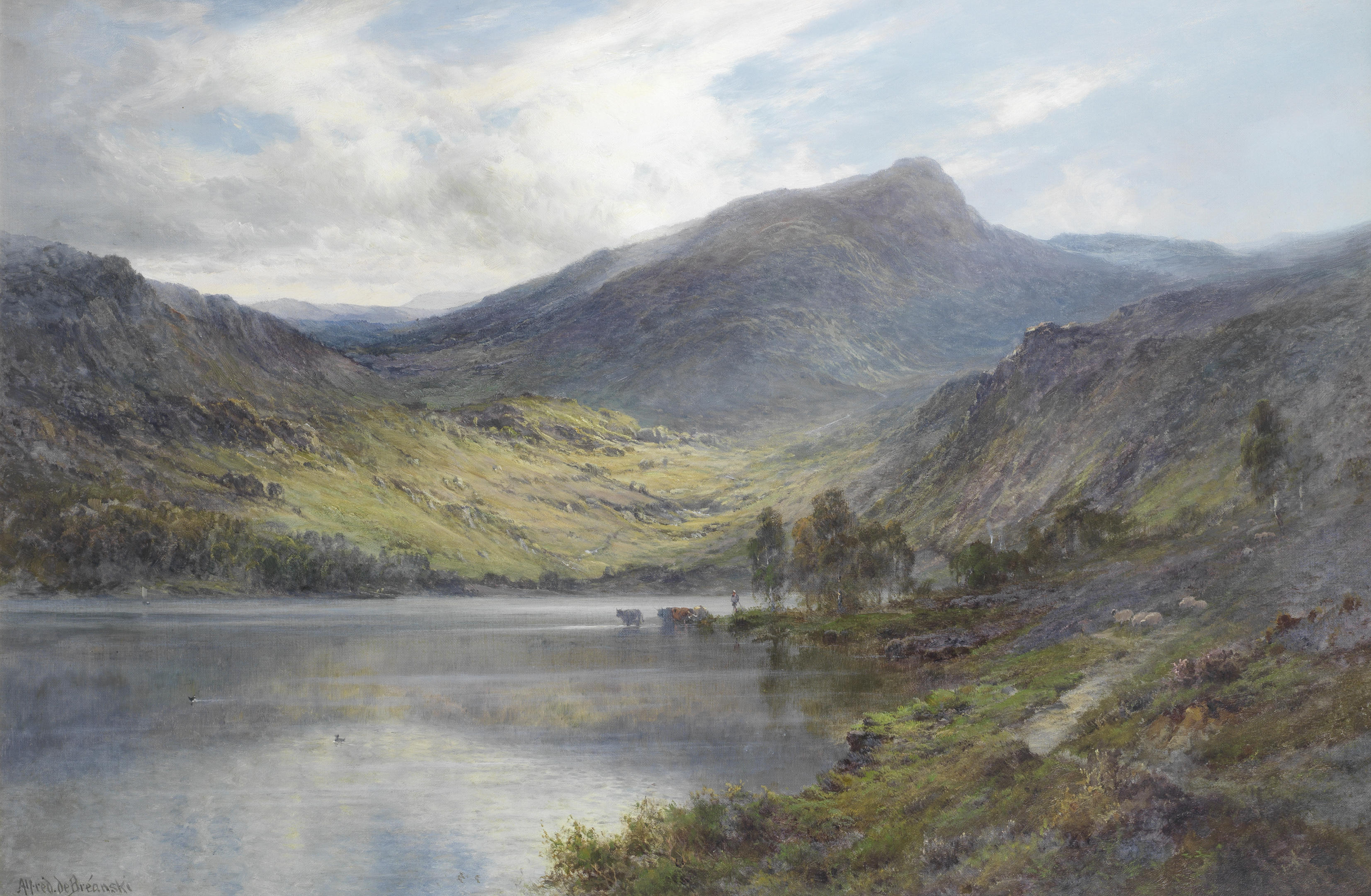 Loch Ness; signed 'Alfred. de Bréanski' (lower left); signed and inscribed with title on the reverse; oil on canvas; 61 x 91.5 cm